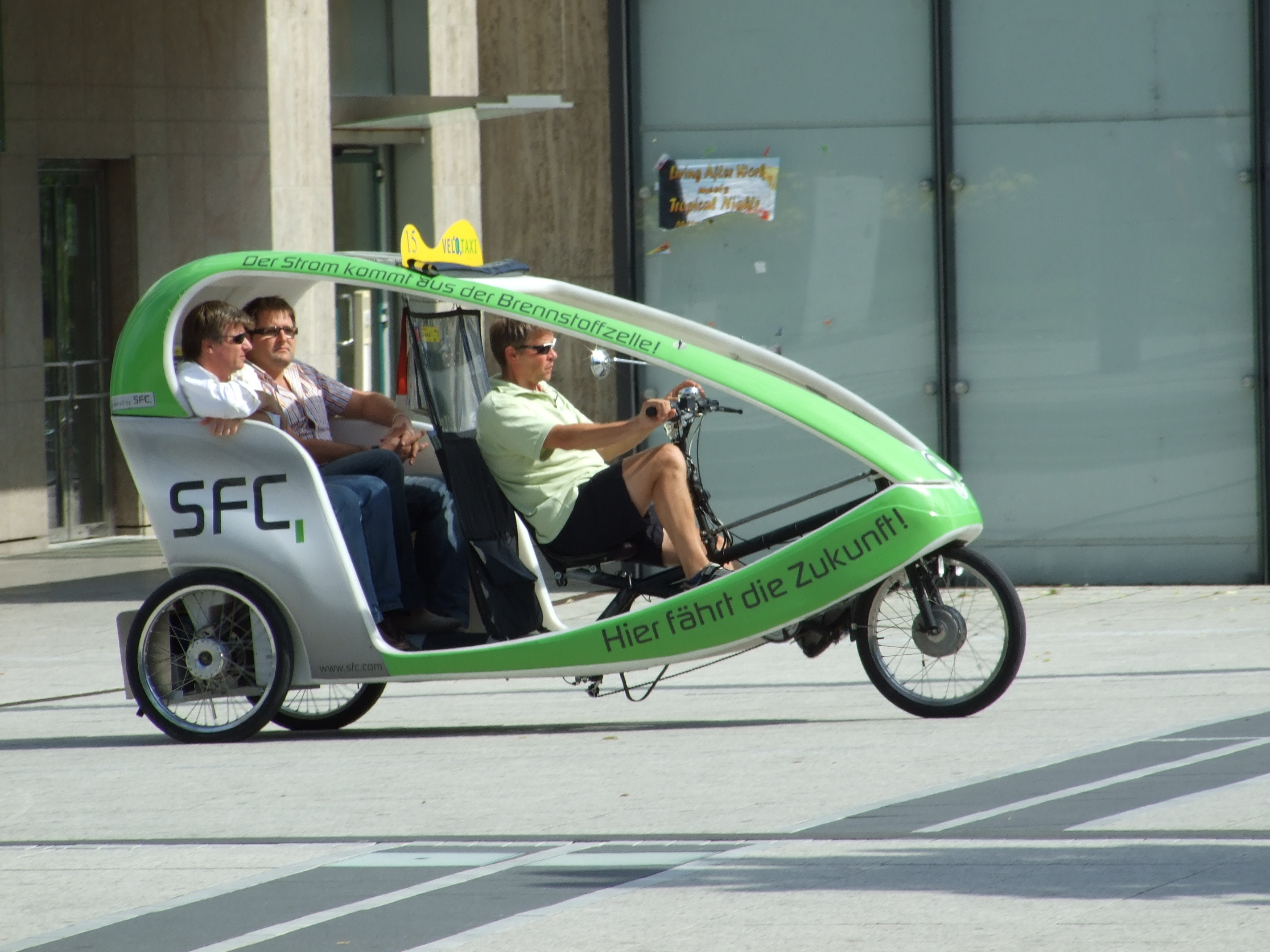 Velotaxi CityCruiser I in Frankfurt am Main, Germany.